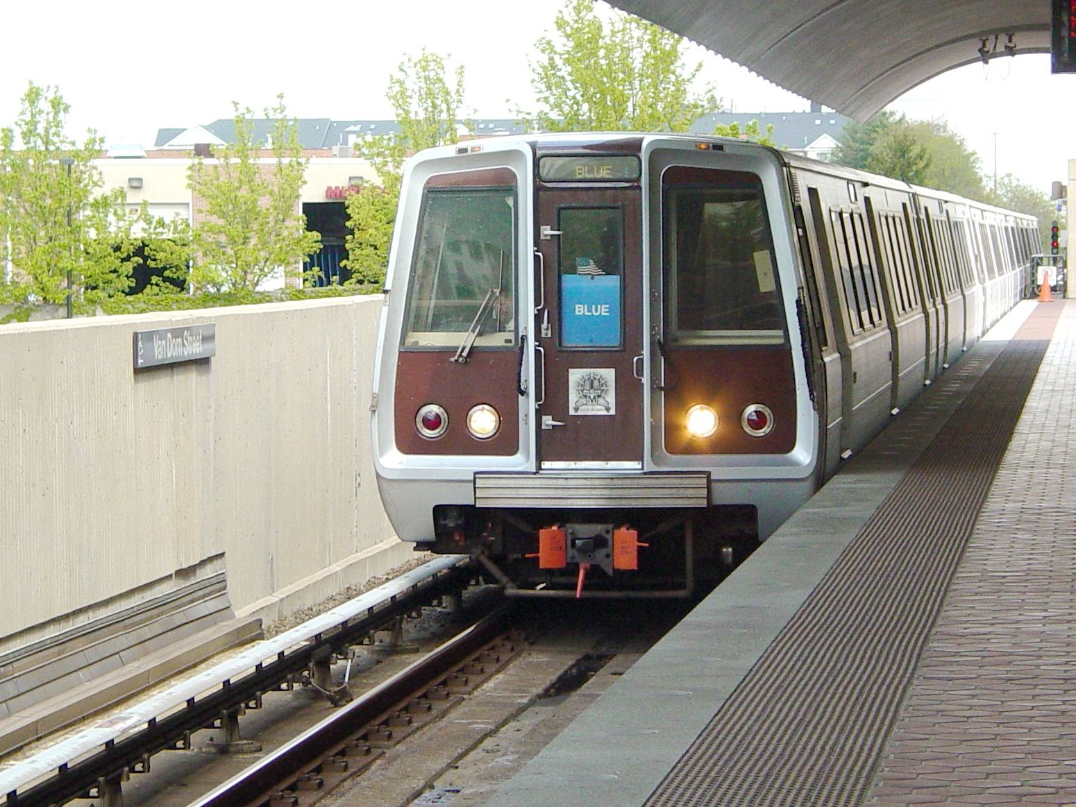 A train headed by a Breda 3000-series set arrives on the outbound track at Van Dorn Street.